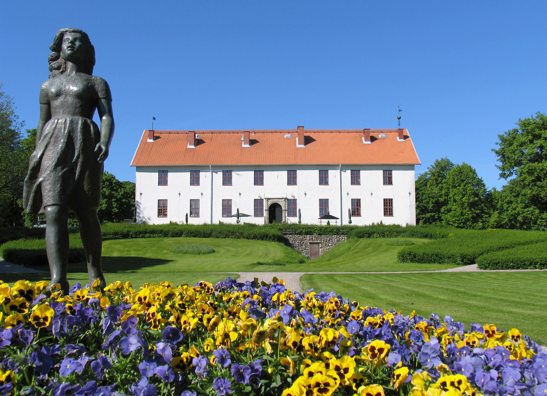 Sundbyholm Castle and statue.